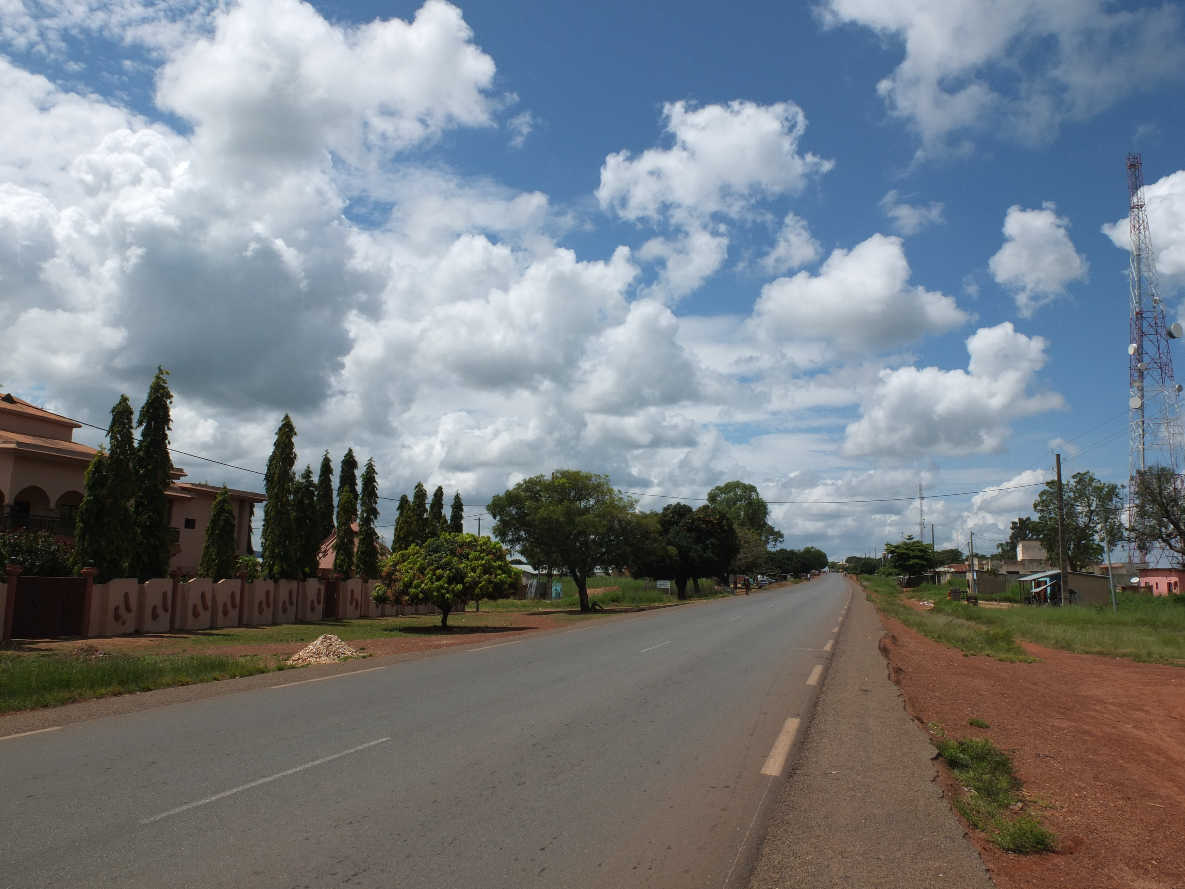 Entrance of Copargo, Donga Departement, Benin, West Africa